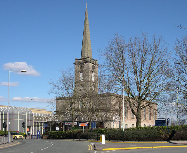 St. George's Church (Sainsbury's), Wolverhampton The church was built from brick, encased in Tixall stone, from 1828-1830. It closed in 1978, became derelict, then was incorporated into a new Sainsbury's supermarket, opening in 1988.